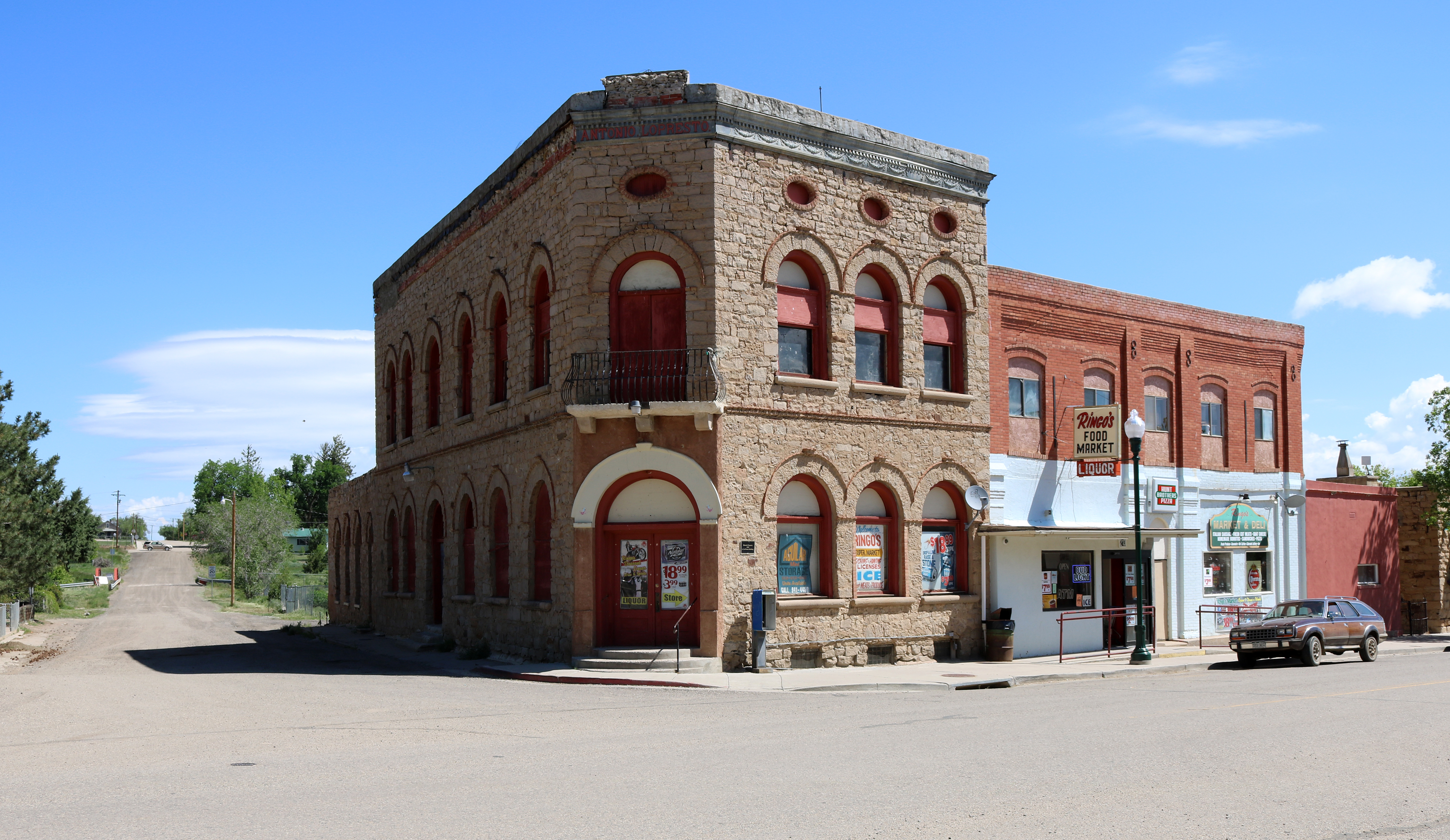 The Antonio Lopresto Building on East Main Street in Aguilar, Colorado.